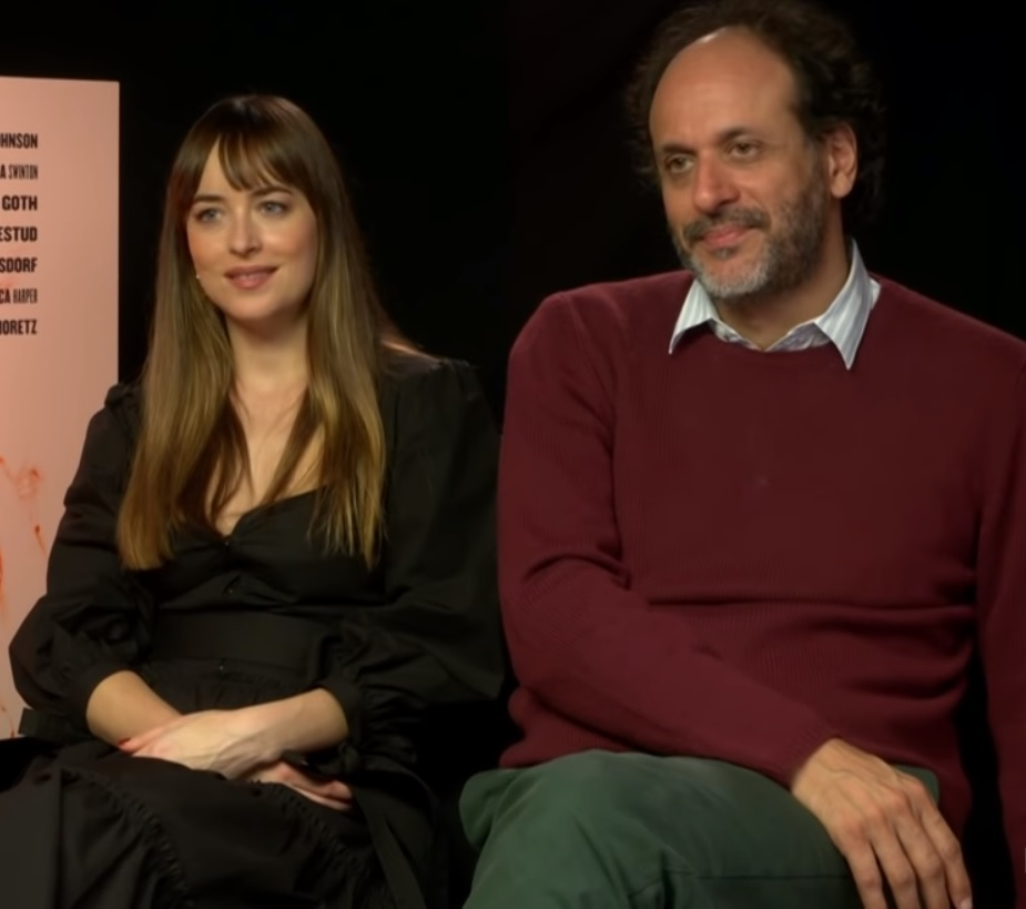 The cast of creepy new horror remake Suspiria, Dakota Johnson and Mia Goth, and director Luca Guadgnino, reveal exactly how they made the film’s moments of horror SO terrifying, Luca’s plans for Dakota Johnson to star in his Call Me By Your Name sequel, and which actor Dakota Johnson would recast as Ana in Fifty Shades for a sequel.